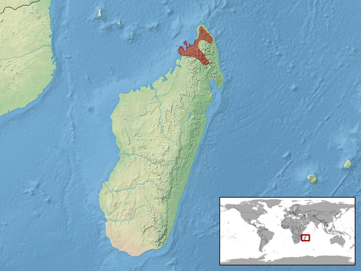 geographic distribution of Lygodactylus madagascariensis (Native: Madagascar)